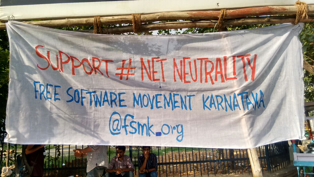 This image was taken on 23rd April during FSMK's walkathon in support of NetNeutrality